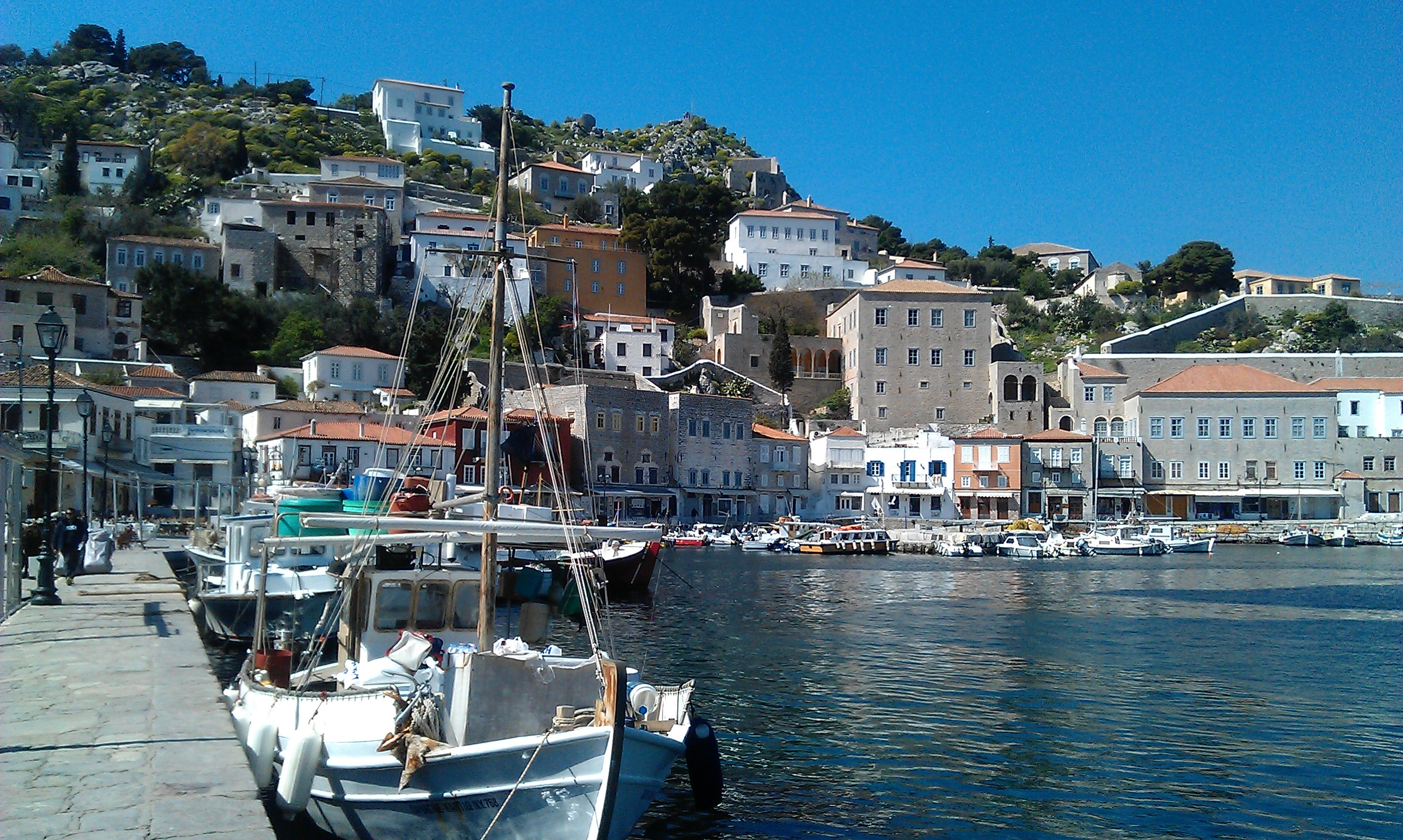 View of the port of HydraMvskoke: Άποψη του λιμανιού της Ύδρας